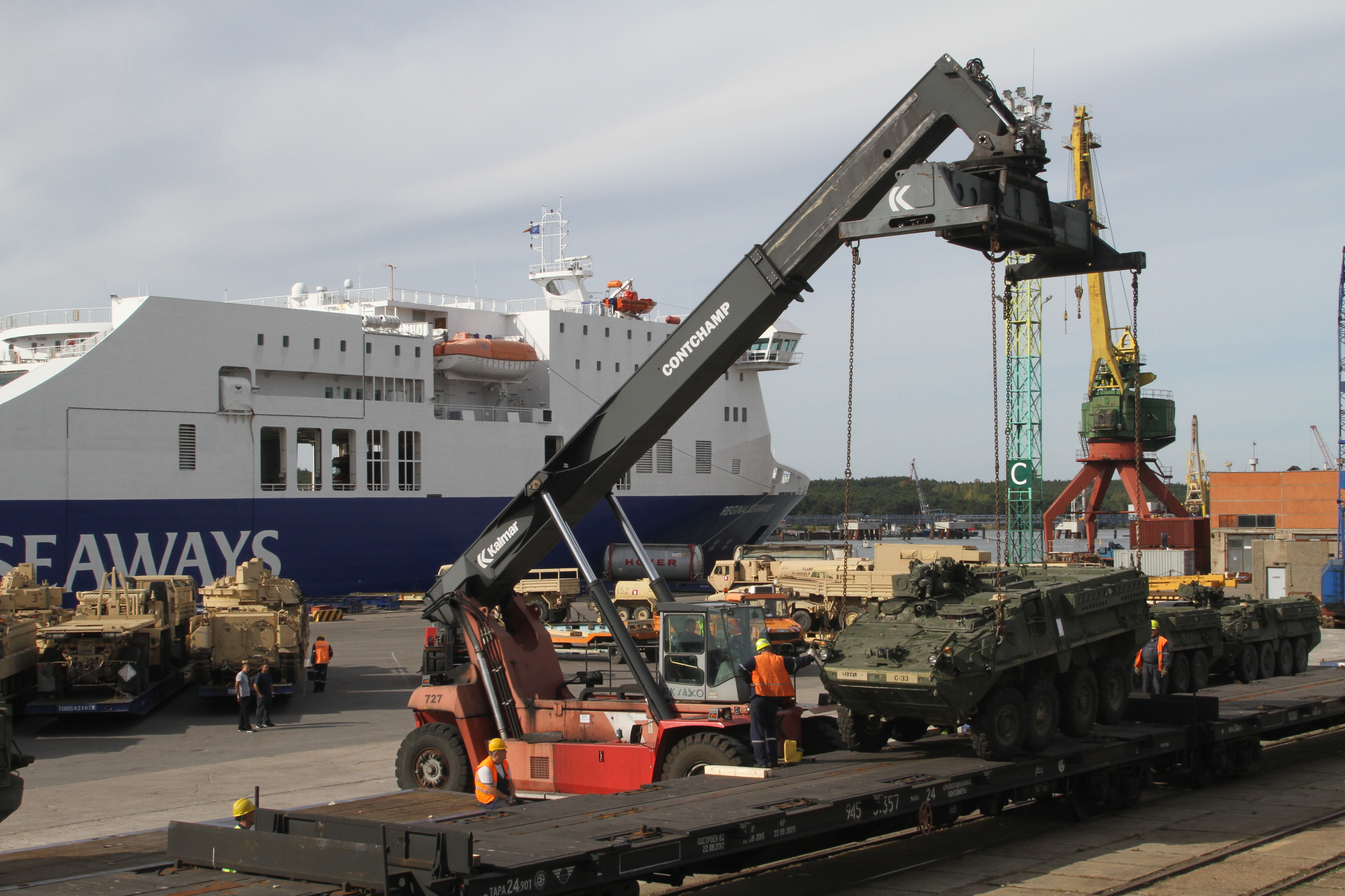 Bradley Fighting Vehicles, Strykers, Humvees, Armored Personnel Carriers, HEMTT Fuel trucks, and other U.S. Army tactical vehicles were offloaded here and transferred to rail lines Sept. 30 - Oct. 1 for transport to locations around the Baltic nations as part of joint exercises between the Texas-based 1st Brigade Combat Team, 1st Cavalry Division, and the host nations of Estonia, Latvia and Lithuania. The U.S. Army Europe-led Atlantic Resolve, a multinational combined arms exercise involving the 1st BCT, 1st Cavalry Division, and host nations, takes place across Estonia, Latvia, Lithuania and Poland to enhance multinational interoperability, to strengthen relationships among allied militaries, to contribute to regional stability and to demonstrate U.S. commitment to NATO. Unit: 1st Brigade Combat Team, 1st Cavalry Division